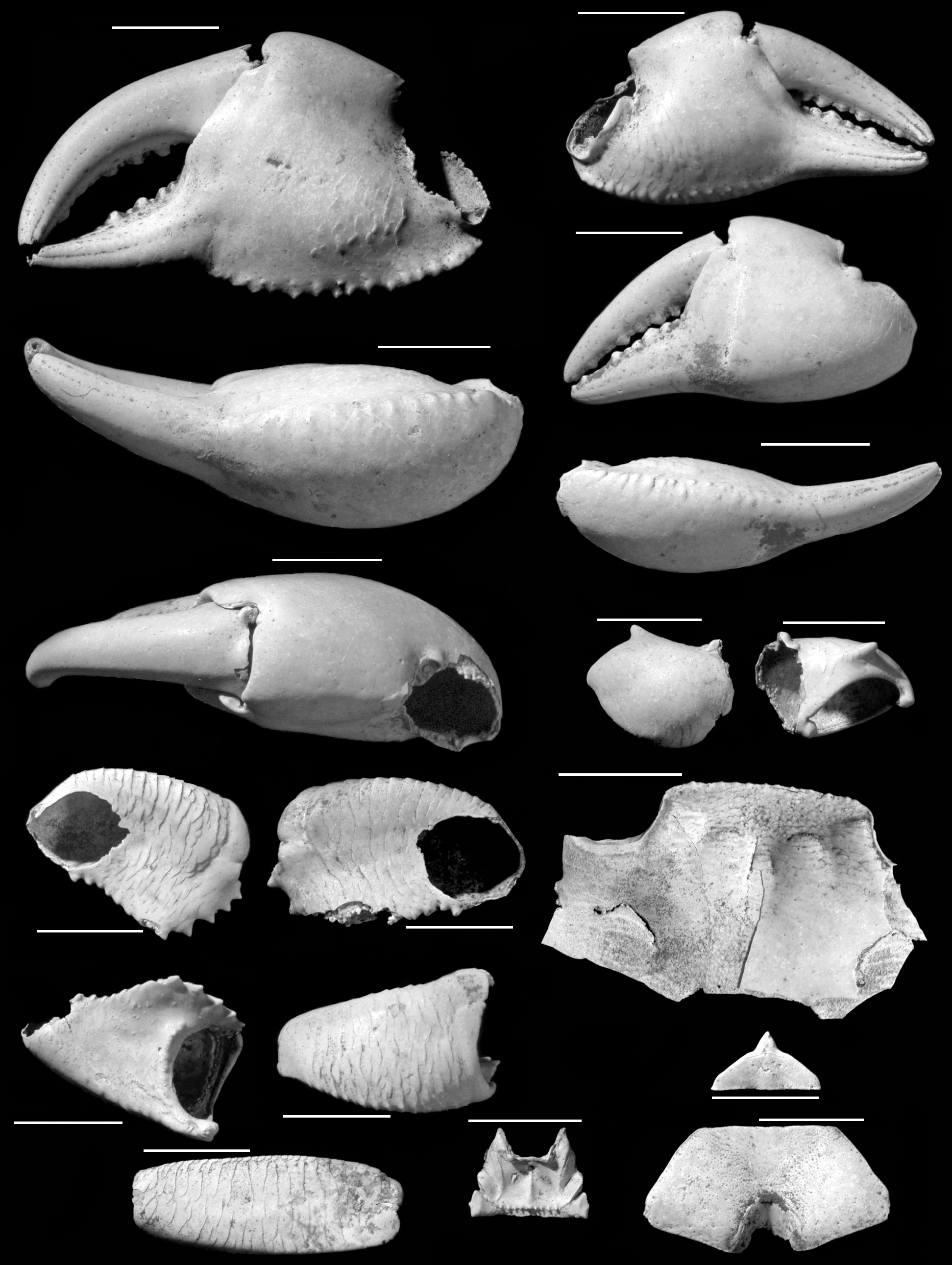 Geograpsus severnsi, holotype male (USNM 539,738). Scale: 10 mm.